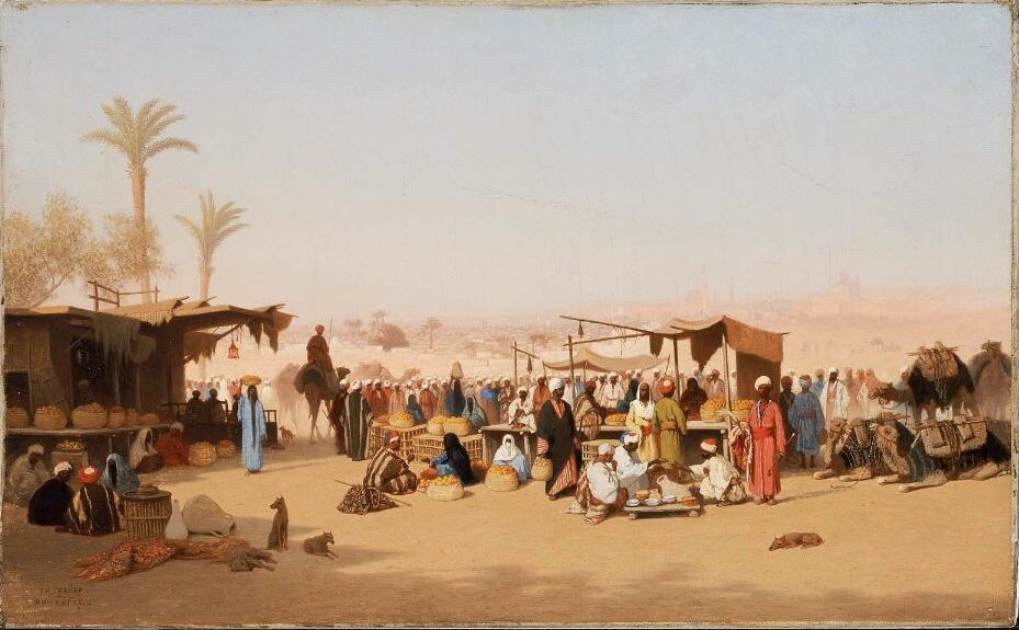 Scène de marché au Caire, painting by French Orientalist Charles Théodore Frère. Oil on canvas, 38.4 x 61.9 cm, Museum of Fine Arts Boston.